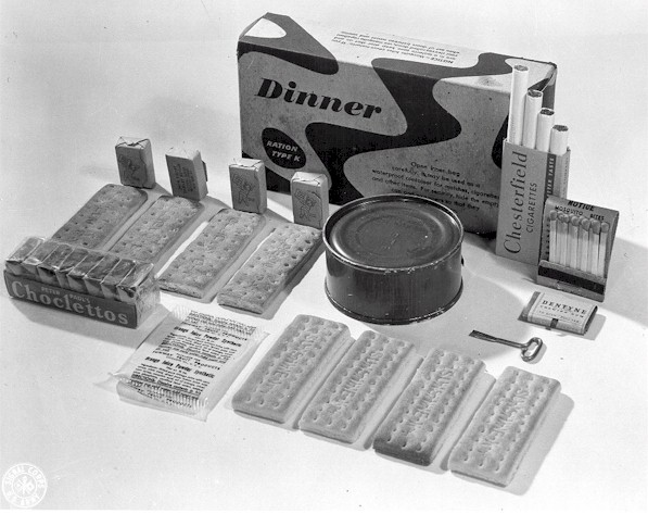 K-ration dinner unit. The K-ration was an individual daily combat food ration which was introduced by the United States Army during World War II.